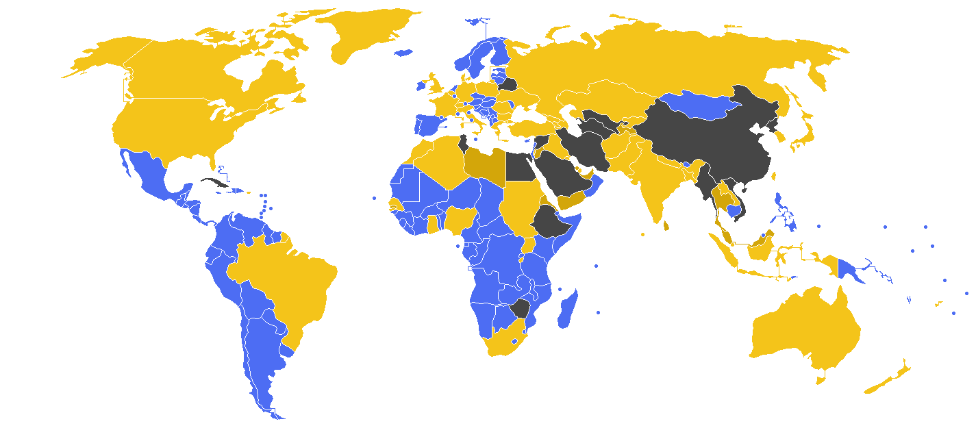 Obstacles to the free flow of information online.